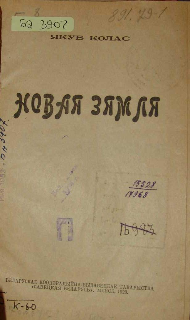 Yakub Kolas' "Novaja Ziamla" first issue book cover. Беларуская (тарашкевіца): Вокладка першага выданьня «Новай зямлі» Якуба Коласа